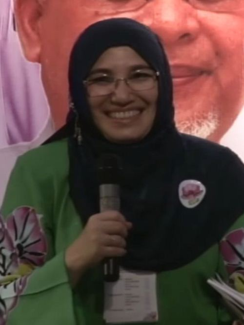 Amany Lubis sebagai perwakilan Indonesia dari Aktivis Wanita Muslim Internasional saat berbicara di acara Persidangan Wanita Islam Antarabangsa (International Islamic Women Conference) yang bertepatan dengan Hari Saidatina Khadijah di Kelantan, Malaysia.